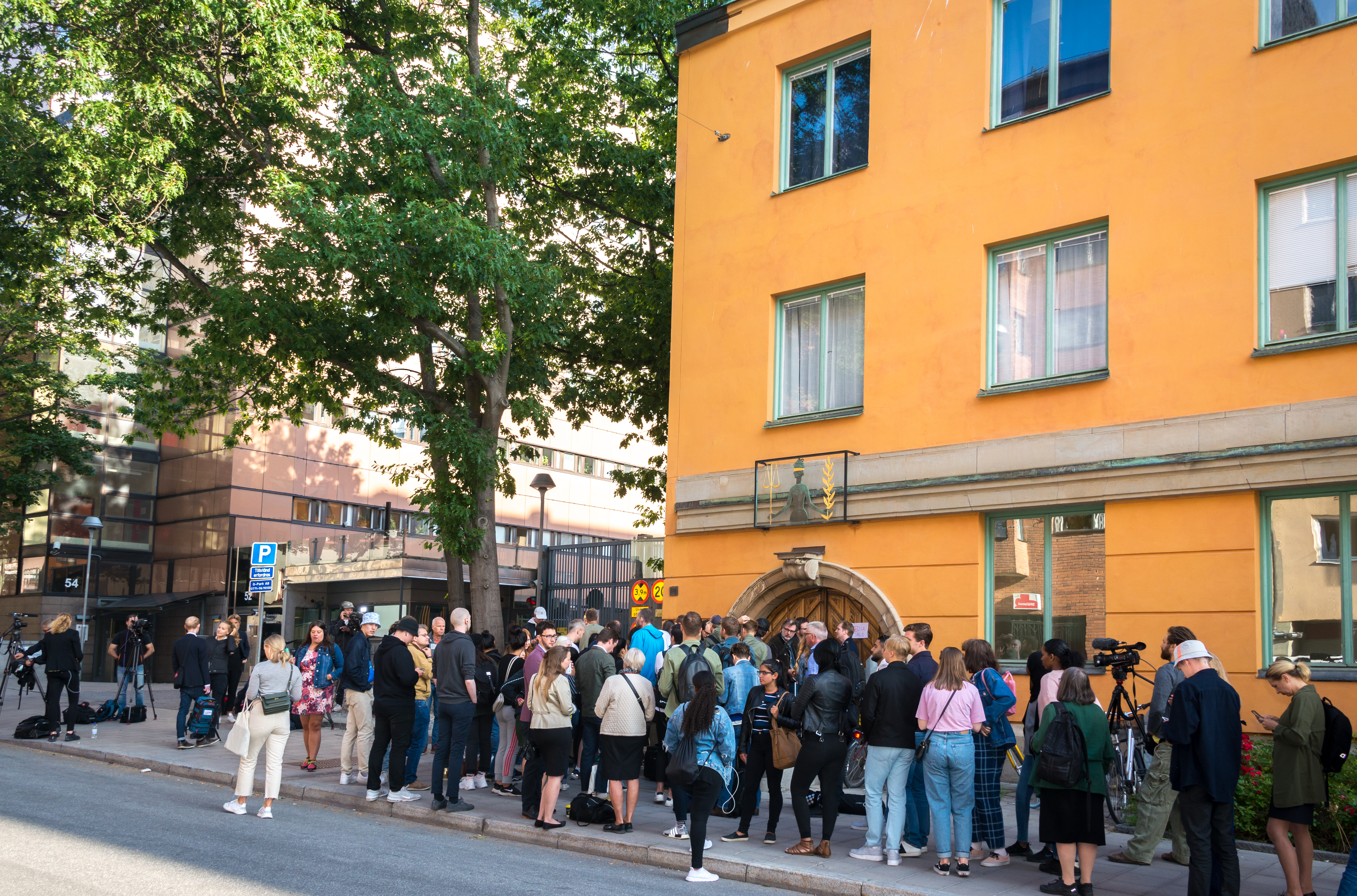 Outside the court just before the trial of ASAP Rocky on August 2, 2019 in Stockholm, Sweden.